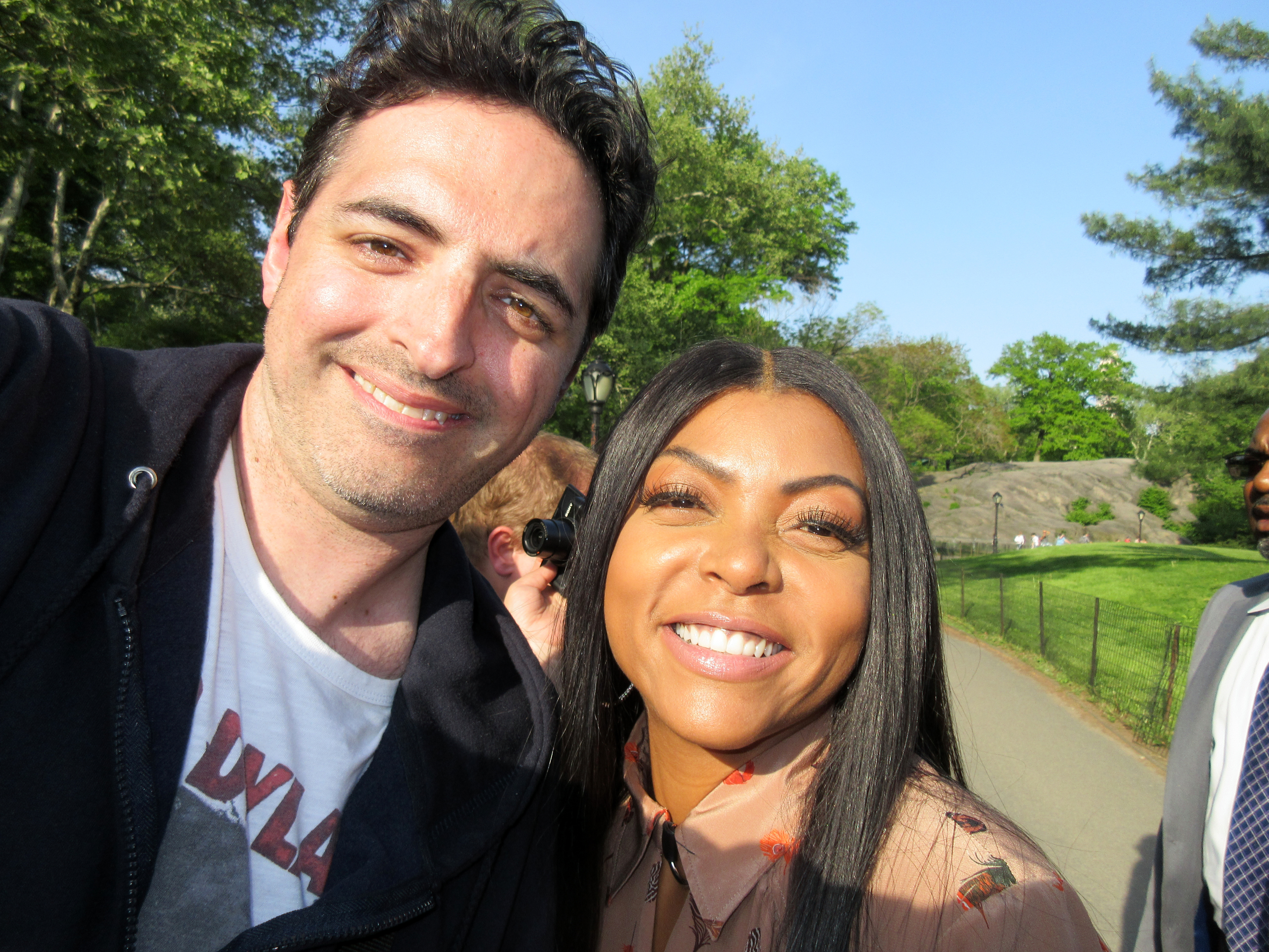 Star of Person of Interest, Empire, and Hidden Figures.